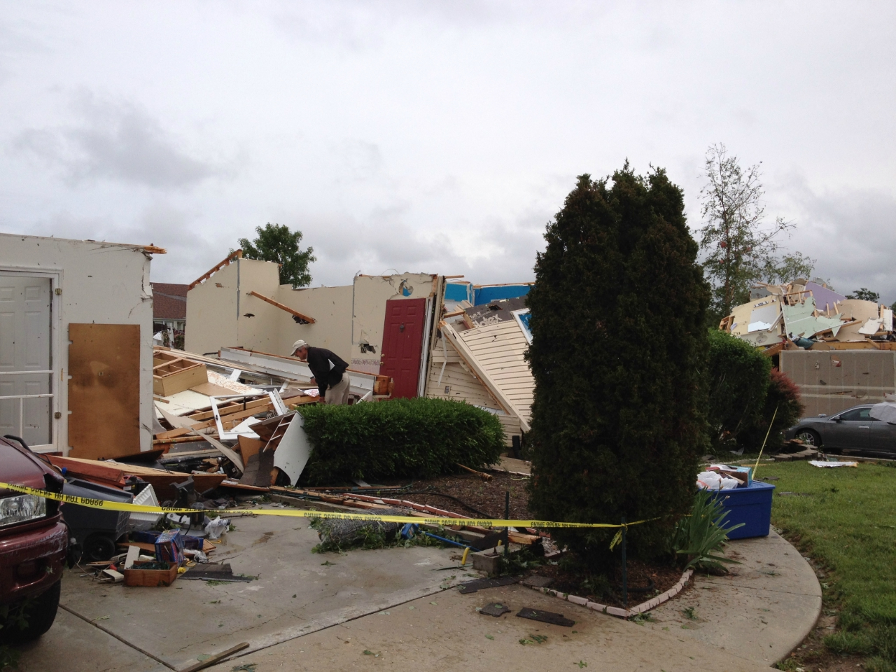 Damage from a tornado that struck St. Louis, Missouri on May 31, 2013. This damage was assigned an EF3 rating